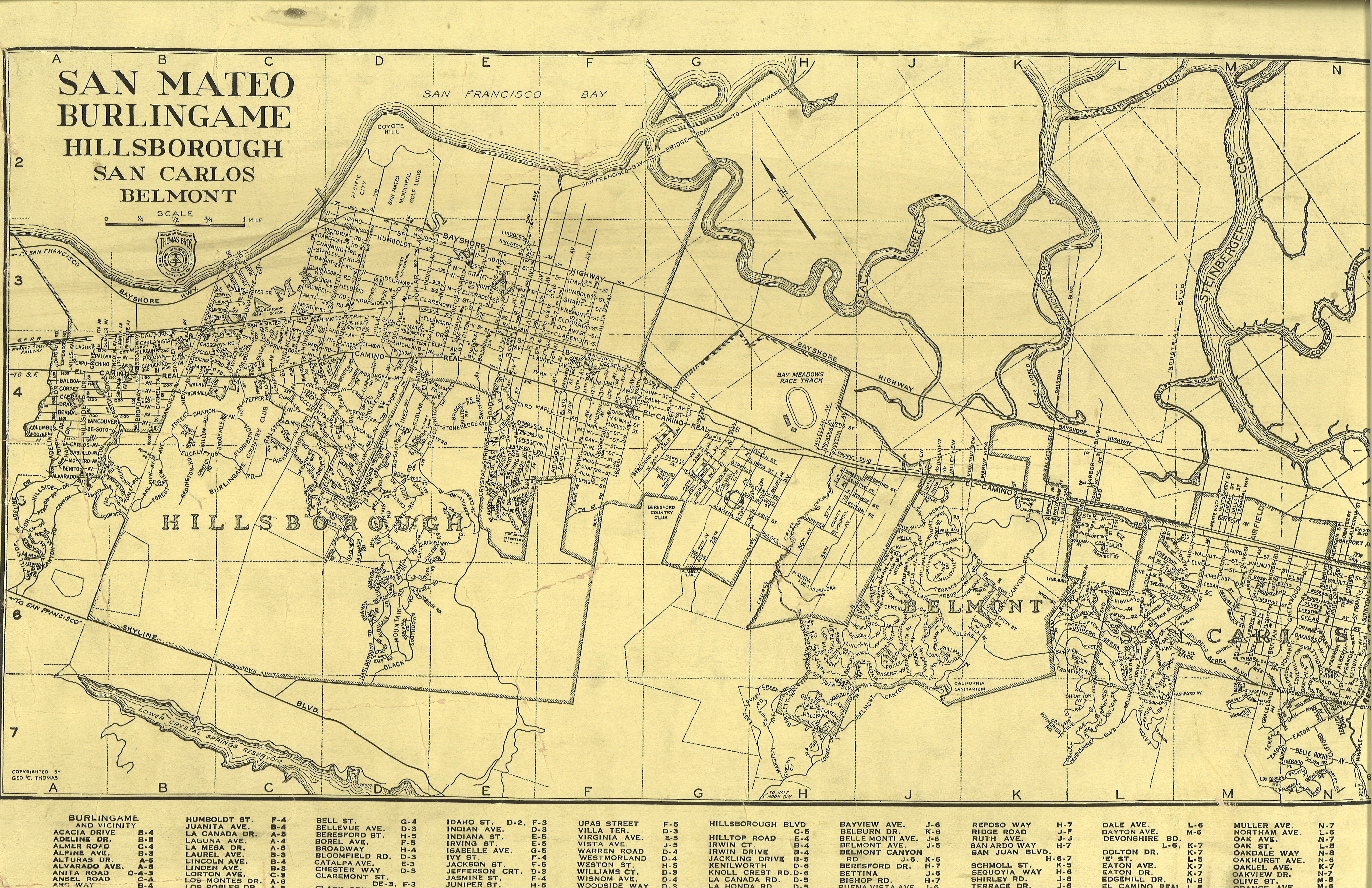 Map of mid-peninsula towns circa 1938